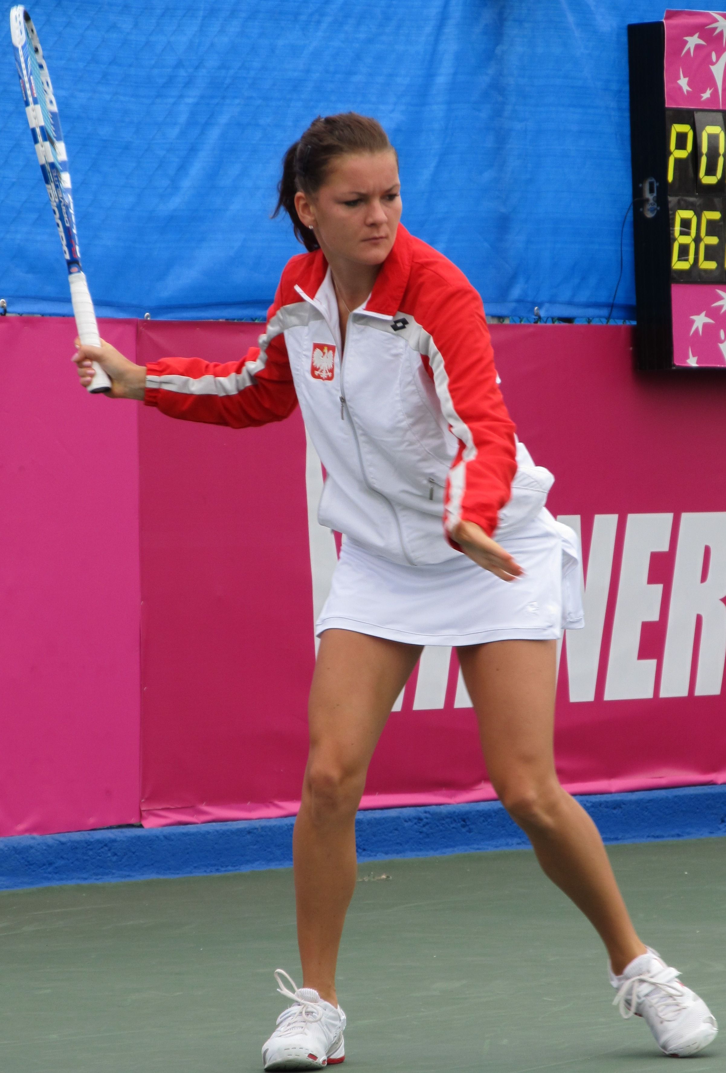 The tennis player Agnieszka Radwańska of Poland during her match against Victoria Azarenka of Belarus in the fourth day of Fed Cup Group I 2011 Europe/ Africa in Eilat, Israel